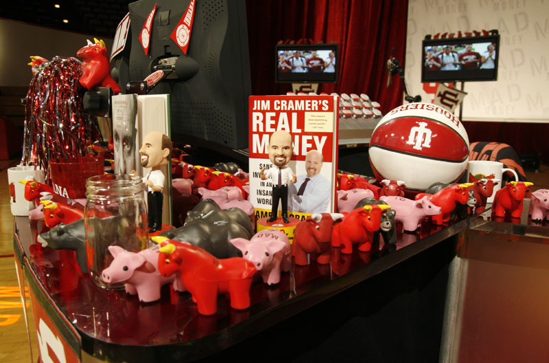 CNBC Mad Money at Indiana UniversitySELL SELL SELL